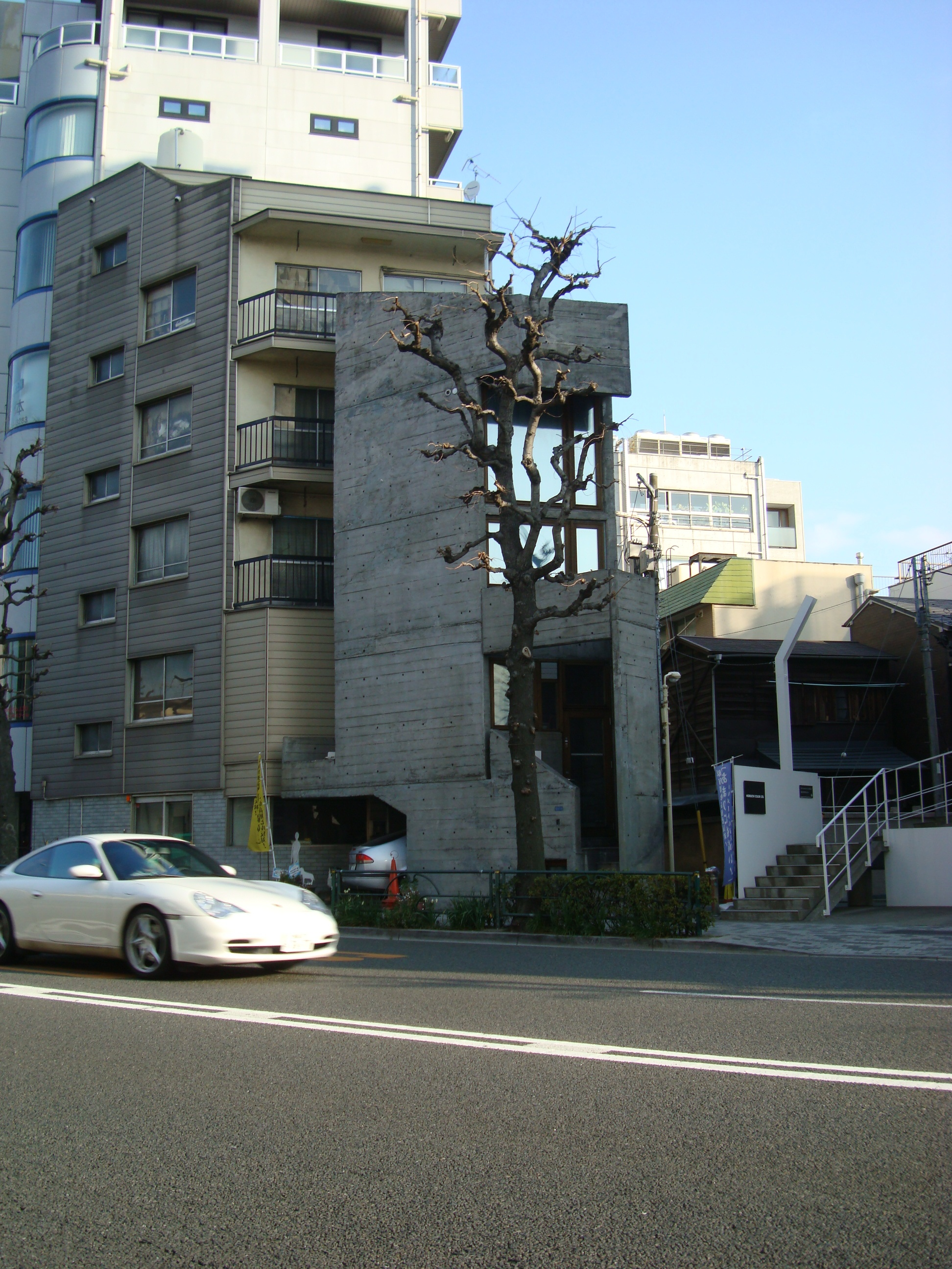 Toh-no-yie, or the Towaerhouse, Tokyo